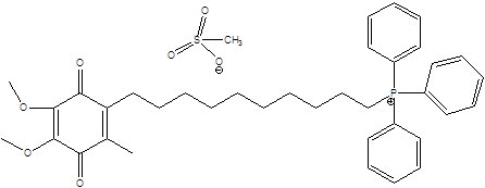 Structural Formula of Mitoq Molecule